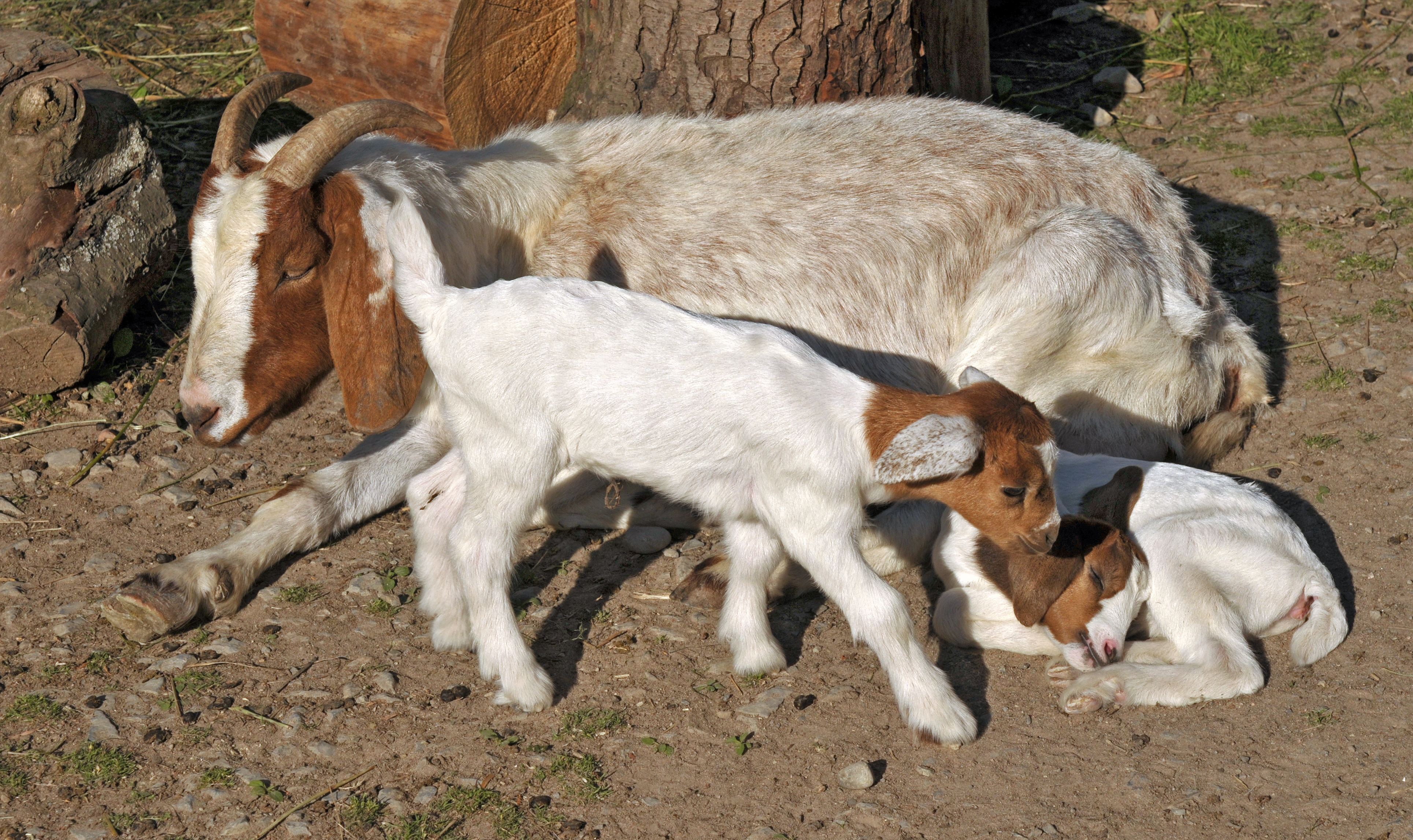 Boer goat with her seven days old kids in the Tierpark Bad Pyrmont in Bad Pyrmont, Lower Saxony, Germany